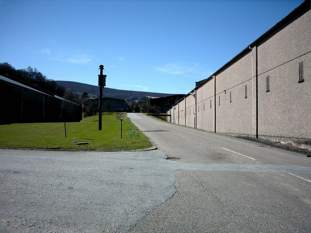 Pittyvaich Distillery, Dufftown. Bonded warehouses at the site of the former Pittyvaich Distillery. The distillery was closed in 1993 and demolished in 2000. All that remains are several bonded warehouses.